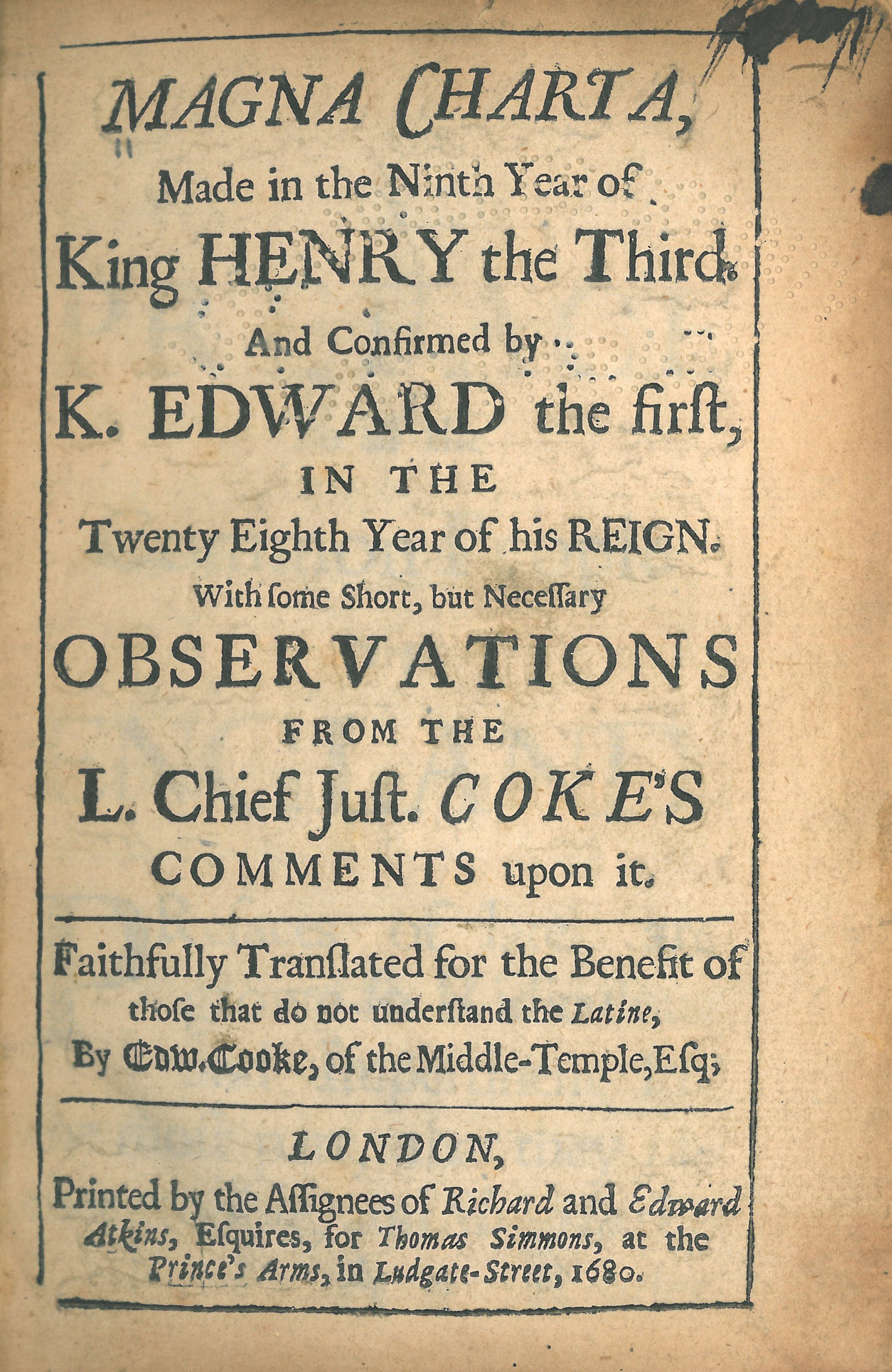 Title page of Edward Cooke, transl. (1680) Magna Charta, Made in the Ninth Year of K[ing] Henry the Third, and Confirmed by K[ing] Edward the First in the Twenty-Eighth Year of His Reign. With Some Short, but Necessary Observations from the L[ord] Chief Just[ice] Coke's Comments upon It. Faithfully Translated for the Benefit of those that do not Understand the Latine, by Edw[ard] Cooke, of the Middle-Temple, Esq[uire], London: Printed by the Assignees of Richard and Edward Atkins, Esquires, for Thomas Simmons, at the Prince's Arms, in Ludgate-Street OCLC: 31360645.